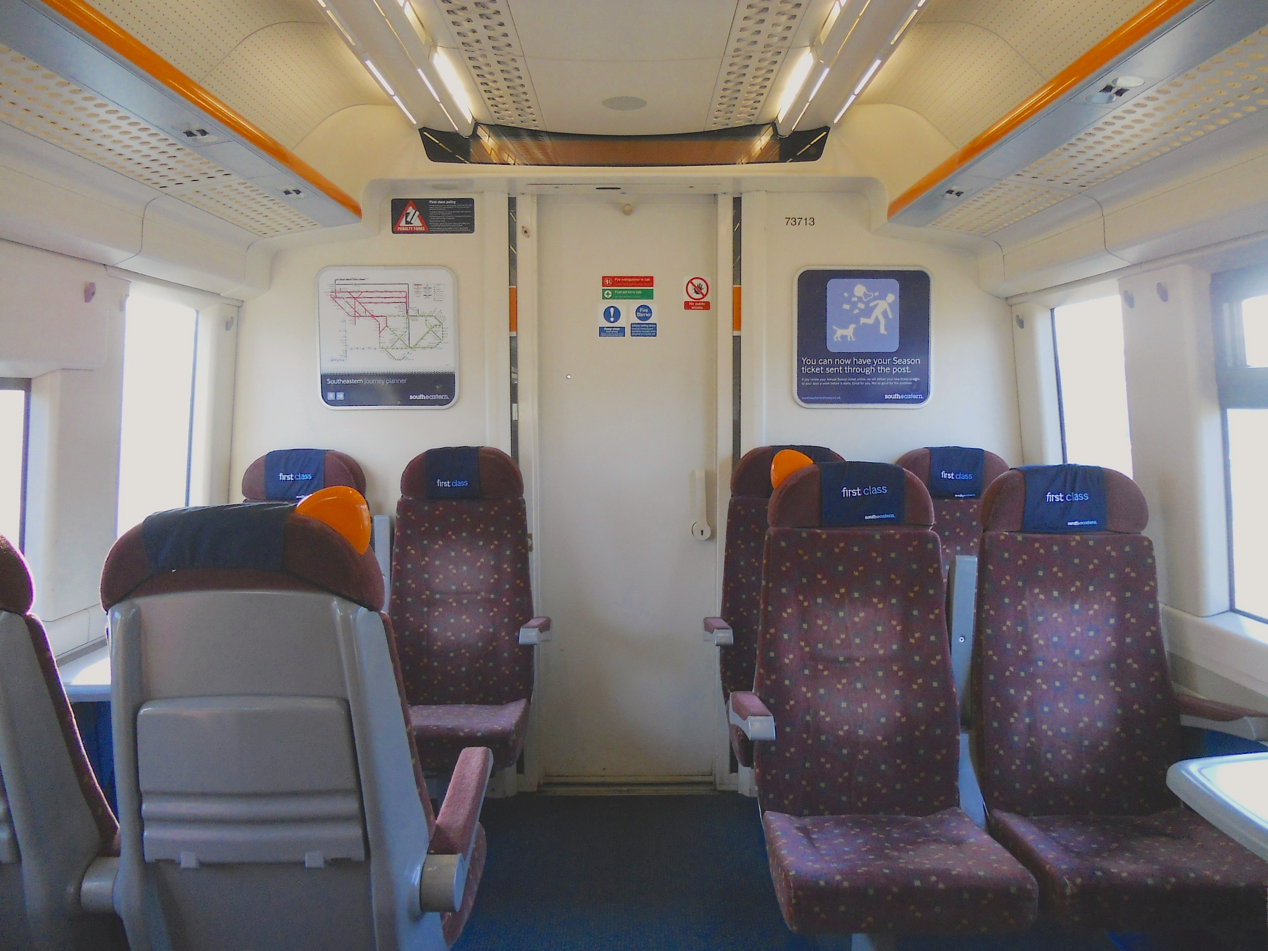 The interior of First Class cabin from a Southeastern trains Class 375